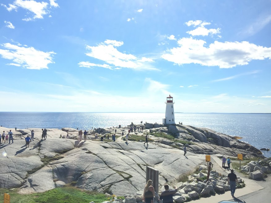 This photo has been taken in the country: Canada